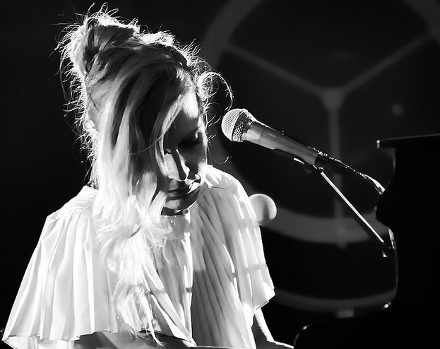 Agnes Obel, Les Nuits Secrètes, Aulnoye-Aymeries, 2014 by Eric VALLET.